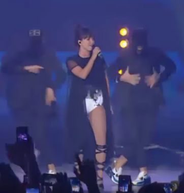 Inna performing "Cola Song" at the Viva Comet 2014 gig.